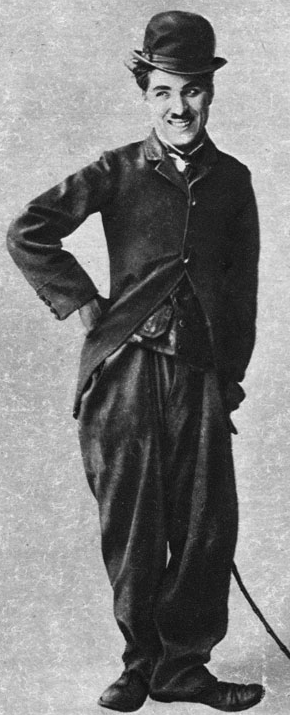 Portrait of Charlie Chaplin as The Tramp